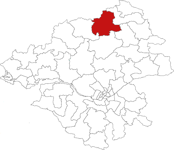 Map of canton of France : Canton de Derval, Loire-Atlantique, France